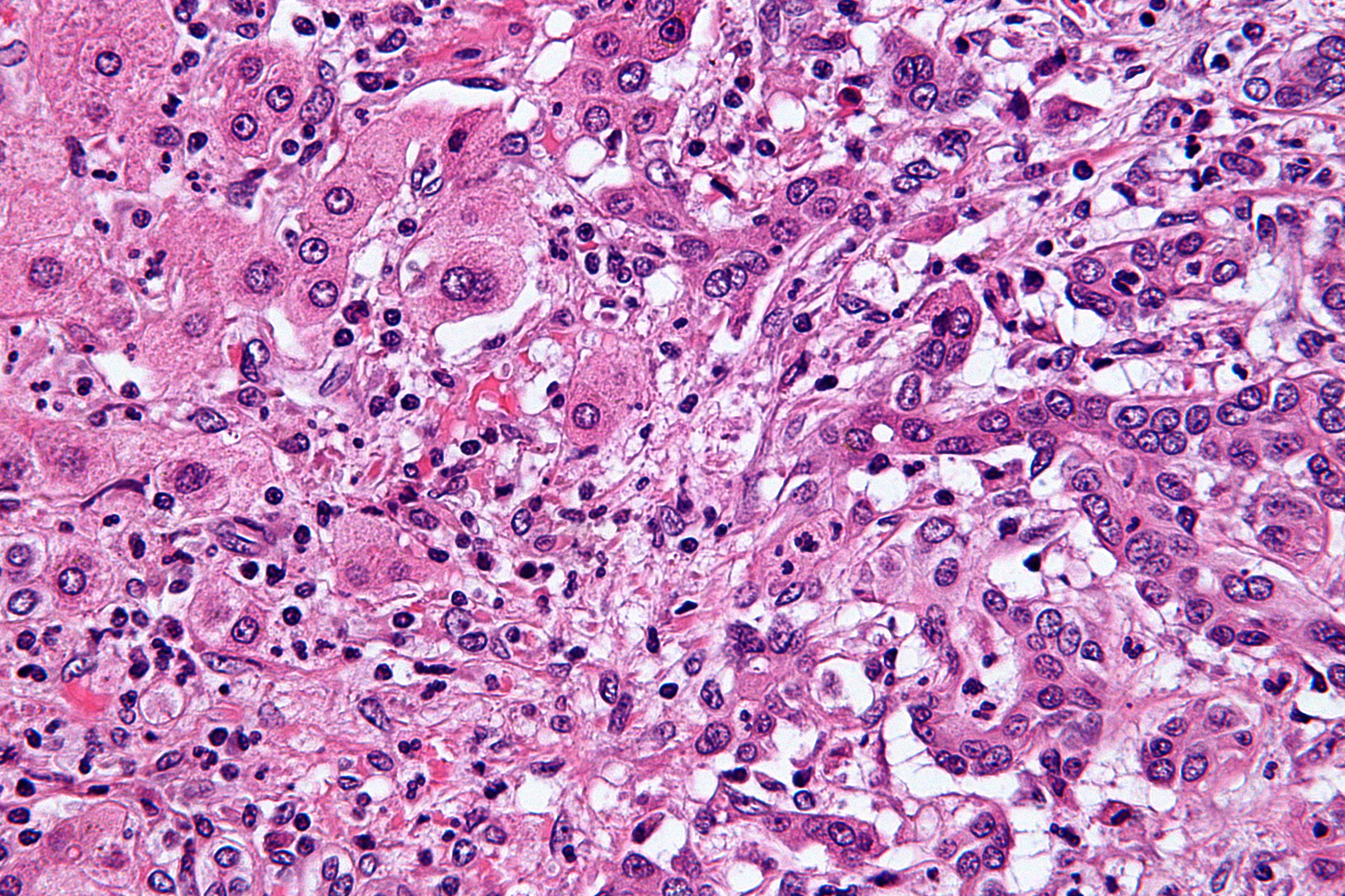 Very high magnification micrograph of cholangiocarcinoma. H&E stain. Related image Low mag. Intermed. mag. High mag. Very high mag.